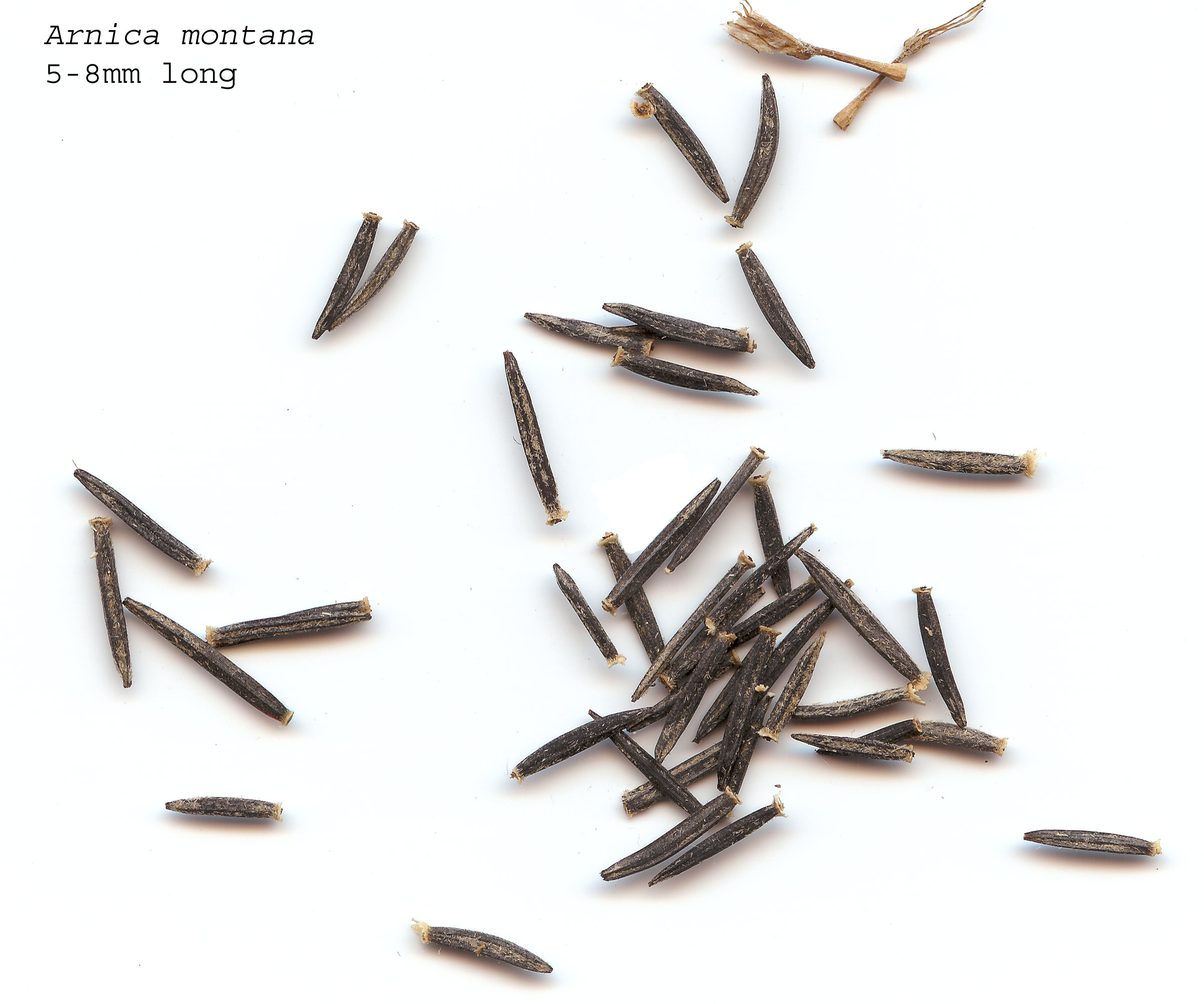 Self made scan of the seeds of Arnica montana, made 01/2008